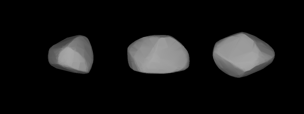 A three-dimensional model of 147 Protogeneia that was computed using light curve inversion techniques.